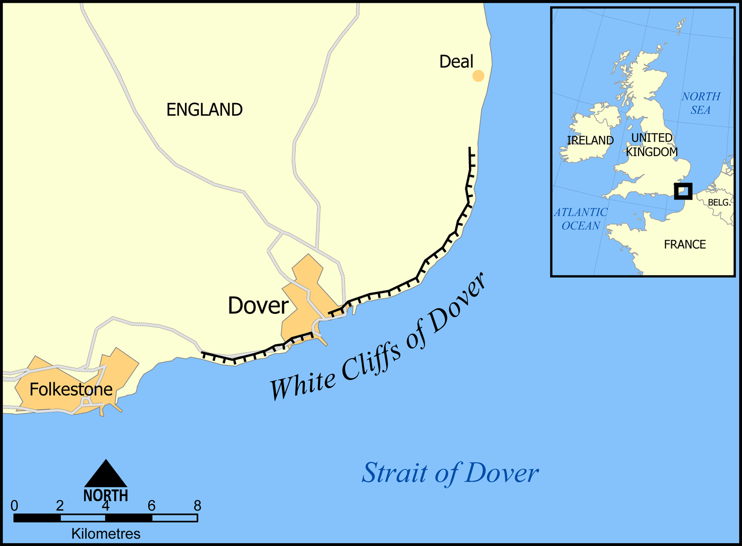 This map shows the location and roughly the extent of the White Cliffs of Dover. Created by NormanEinstein, December 19, 2005.